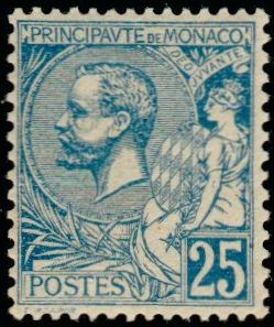 Stamp of Albert I of Monaco